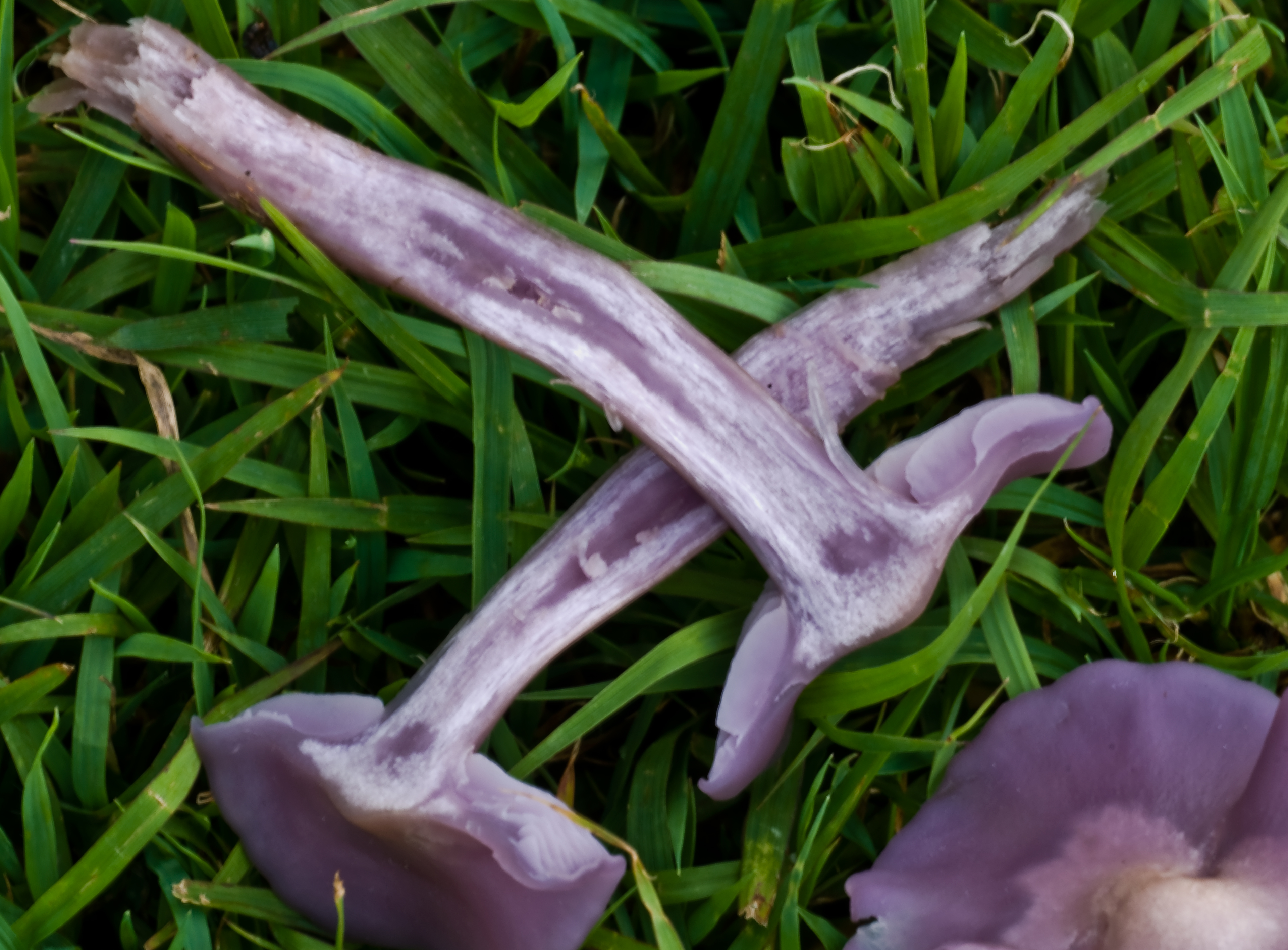 Lepista (Fr.) W.G. Sm. Image location: West Kempsey, New South Wales, Australia This group of Fungi were growing in a “Fairy Ring” with a perimeter of about 20feet or 7 meters. They were all in the early stages of show. The stems were firm and moist. The Caps were delicate and easily broken. The centre of the caps had a button like convex shape that was well pronounced in comparison to the size of the cap and yellow in appearance. The caps were not sticky, but moist, (it has been raining here and we have had about 100mm of rain in the last 24hours. There was no identifiable aroma except to say that they had a slight herb scent. I cut the stipe for viewing. The colours are true. The stipes were unuaslly secure in the soil. The area of find was in a paddock that is close to domestic type gardens and is a grassy area that is mowed. In another posting I advised that these fungi were growing in close proximity to Pine Trees. (Hoop and NorfolkPines.) I have changed the nominated ID to Lepista for further comment. Recognized by sight For more information about this, see the observation page at Mushroom Observer.